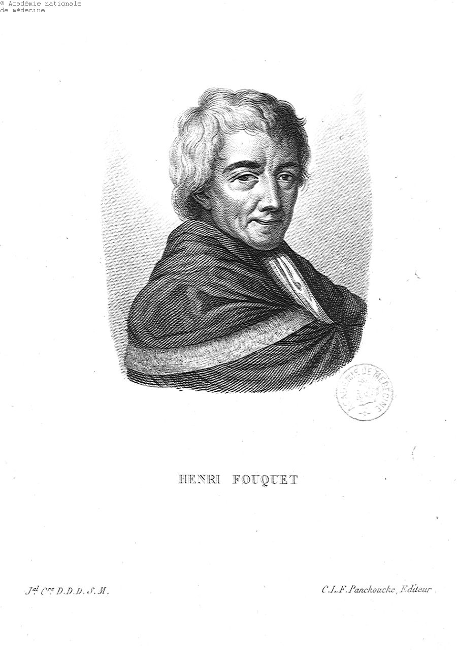 Portrait of Henri Fouquet (1727-1806)